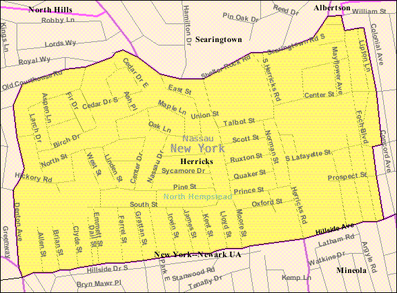 U.S. Census 2000 reference map for Herricks, New York